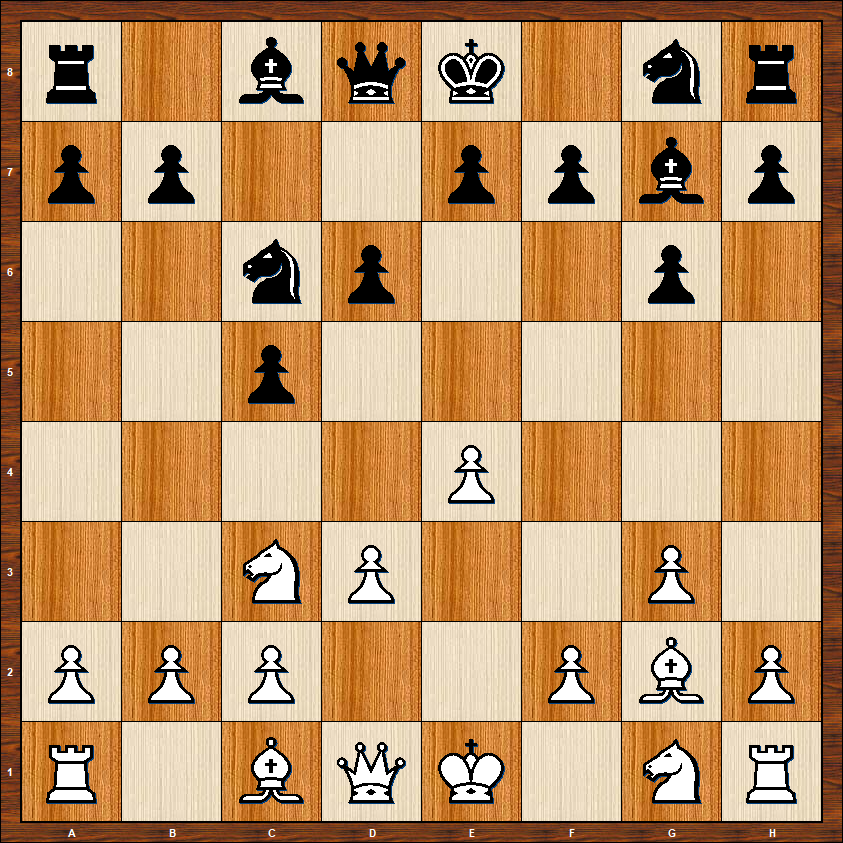 slutet sicilianskt efter drag 5. d3 d6